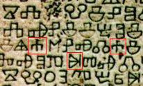 Detail of Baška tablet, showing two types of A